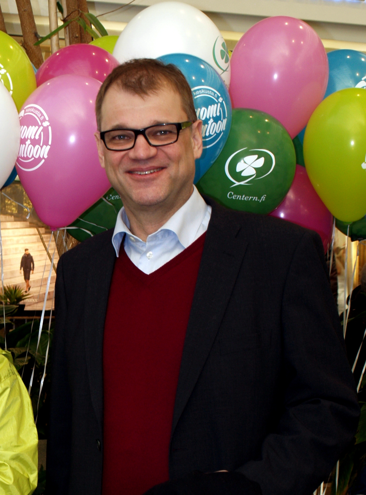 Juha Sipilä in Vaasa, 2015.